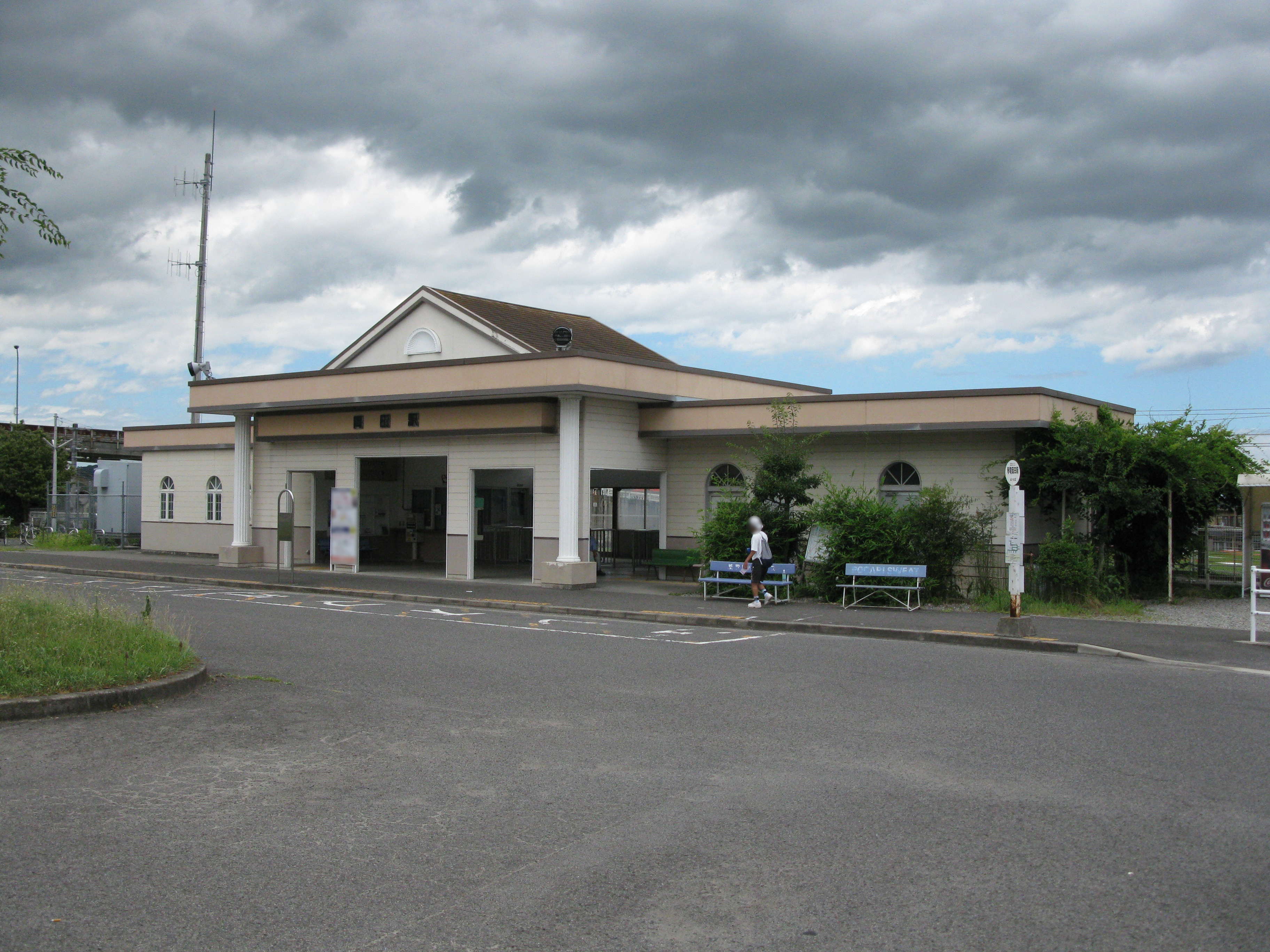 Okada Station building (Takamatsu-Kotohira Electric Railroad(Kotoden) Kotohira Line)